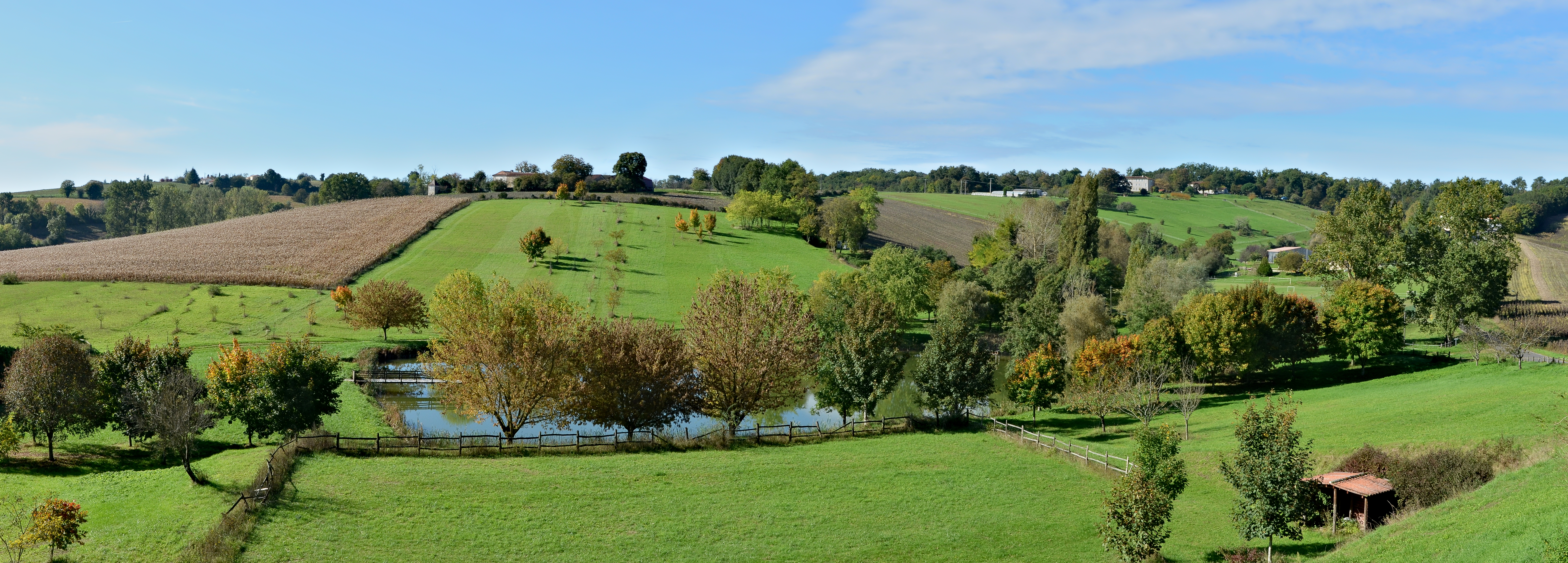 Hilly landscape with a pond, as seen from road D 10, Saint-Laurent-de-Belzagot, Charente,, France.